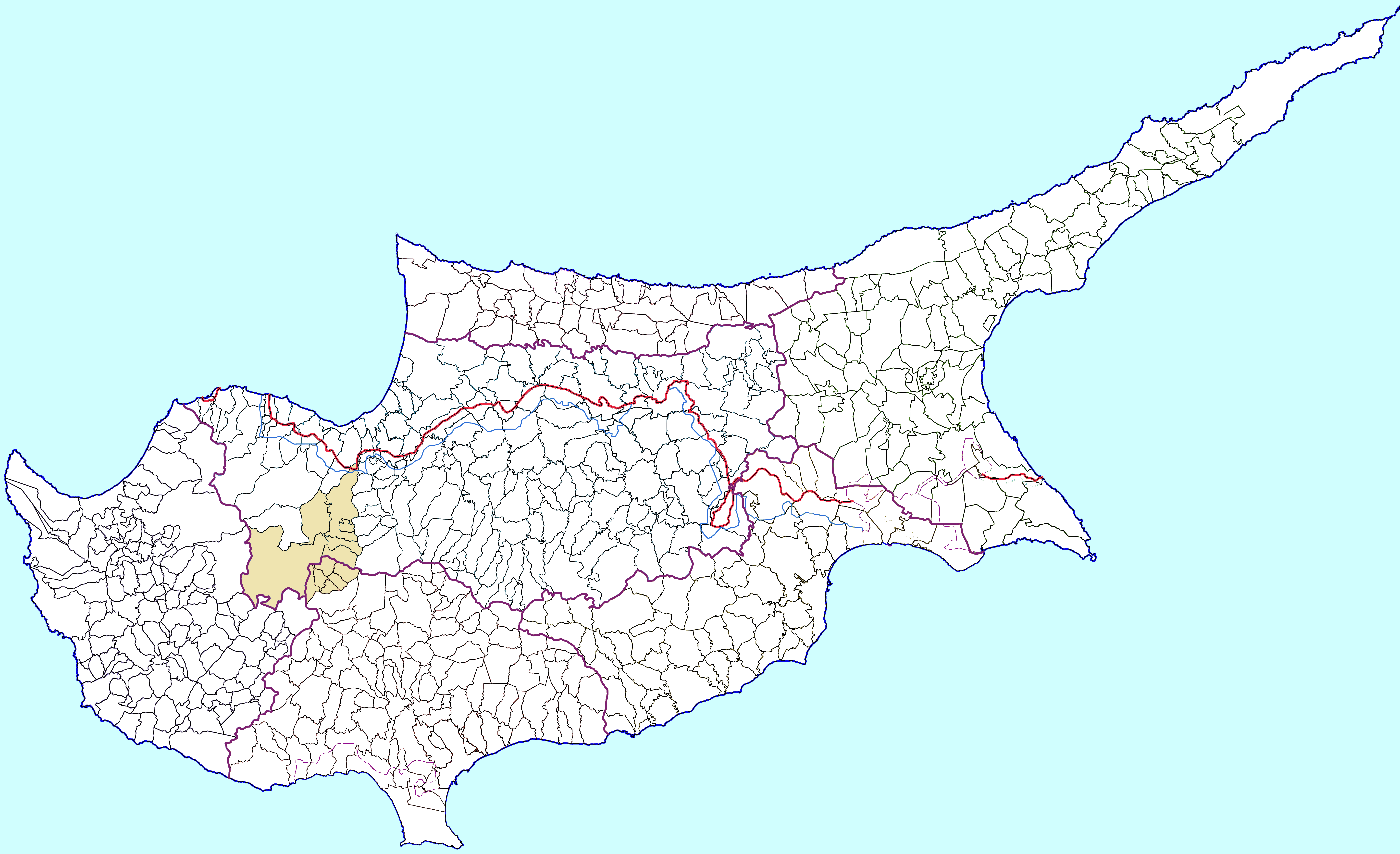 Marathasa Valley in Cyprus.